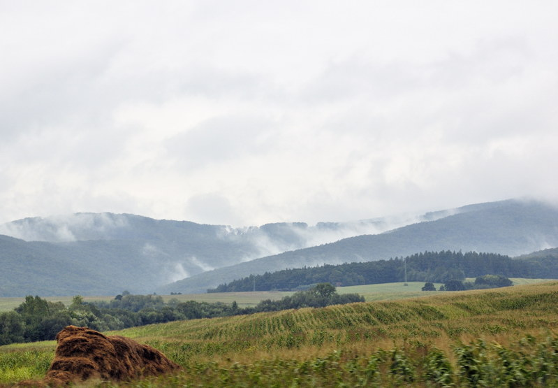 Fractus clouds over the Mount Javorie (729 m, Považský Inovec)